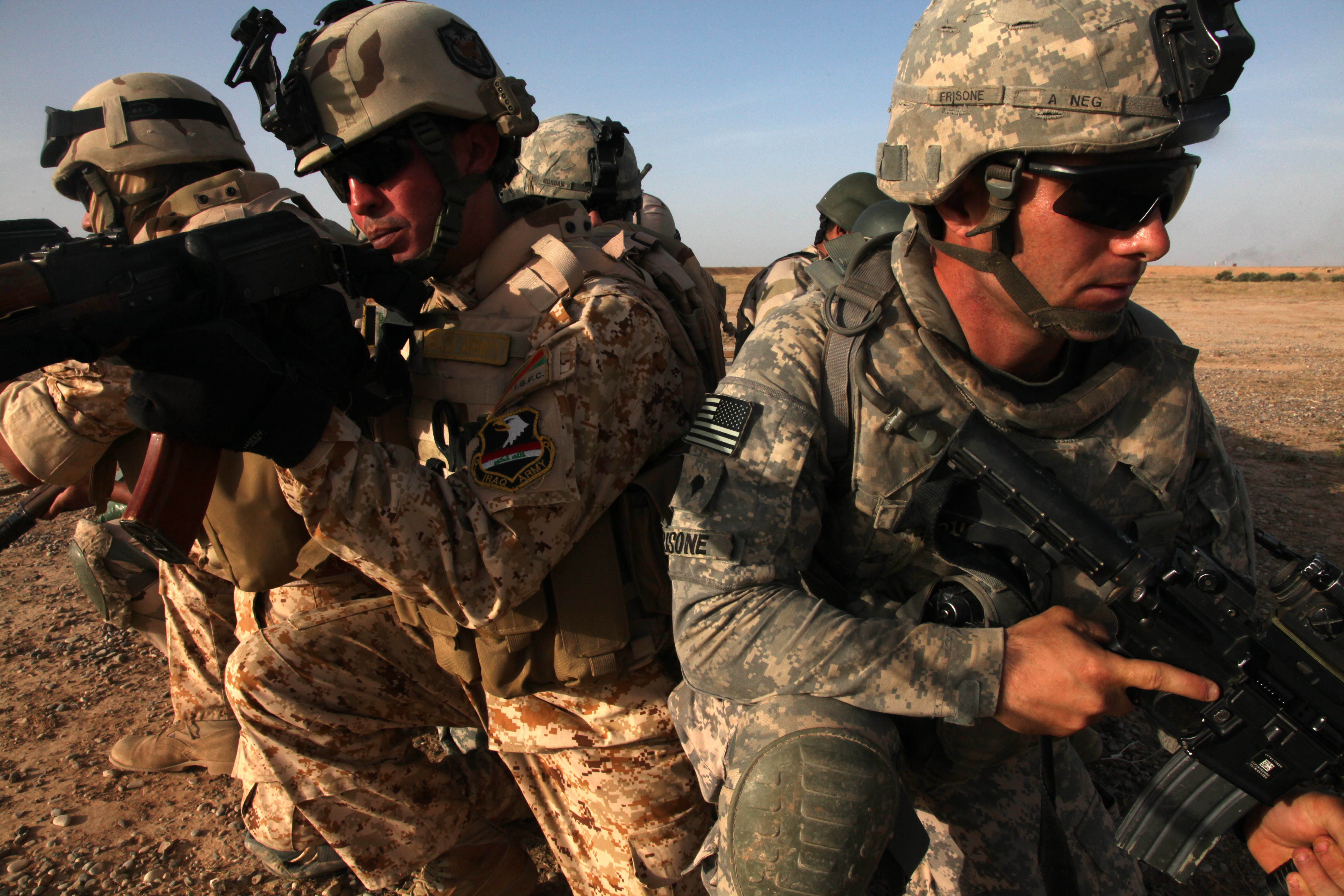 U.S. Army soldiers from Delta Company, 1st Battalion, 37th Armor Regiment, 1st Heavy Brigade Combat Team, 1st Armored Division and Iraqi soldiers from the 47th Iraqi Army Brigade train for an aerial reconnaissance force mission near Hawijah, Iraq, on May 22, 2010. Iraqi soldiers with the team later led an ambush operation in the region.